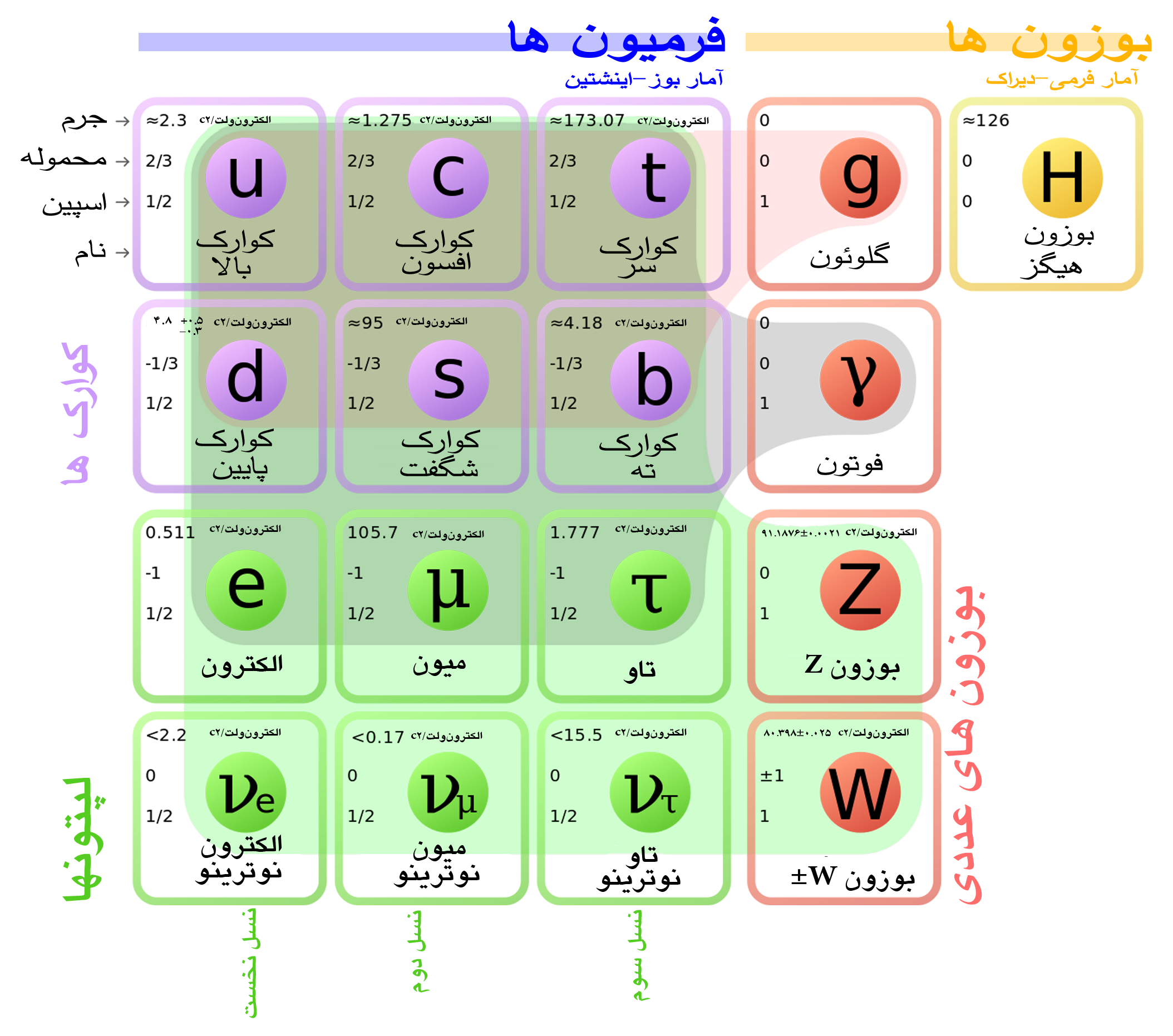 Standard model of elementary particles: the 12 fundamental fermions and 4 fundamental bosons. Brown loops indicate which bosons (red) couple to which fermions (purple and green). Please note that the masses of certain particles are subject to periodic reevaluation by the scientific community. The values currently reflected in this graphic are as of 2008 and may have been adjusted since. For the latest consensus, please visit the Particle Data Group website linked below.